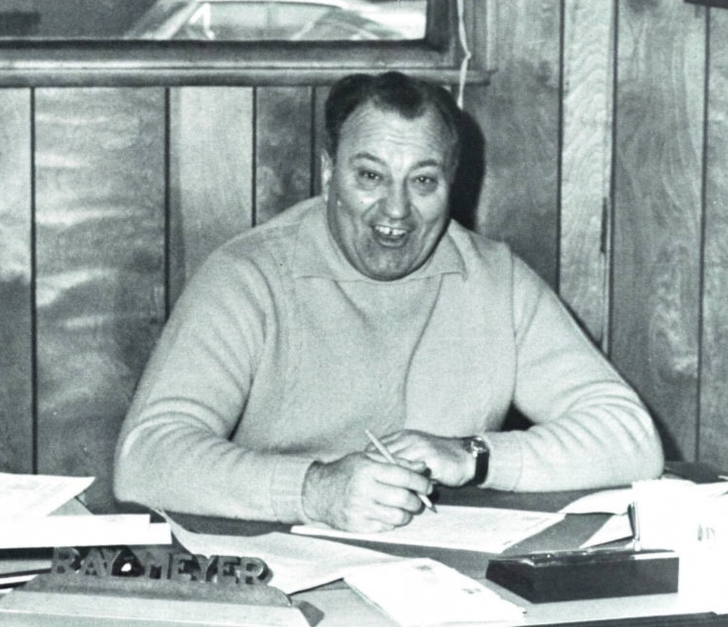 DePaul University Blue Demons basketball coach Ray Meyer from the 1970 “DePaulian” yearbook.